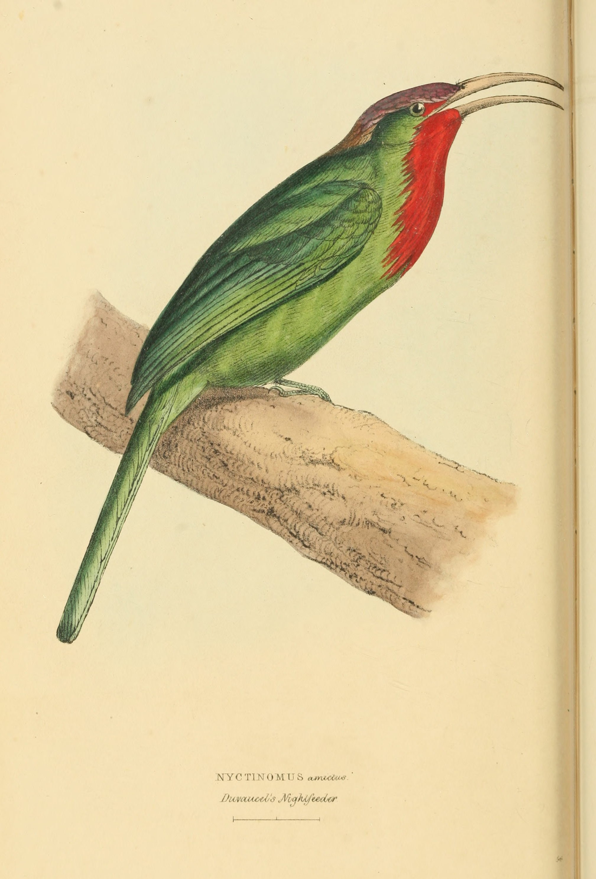 Plate from Zoological illustrations, Volume 2, 2nd series. Duvaucel's Nightfeeder. Nyctiornis amictus. Modern spelling is Nyctyornis.